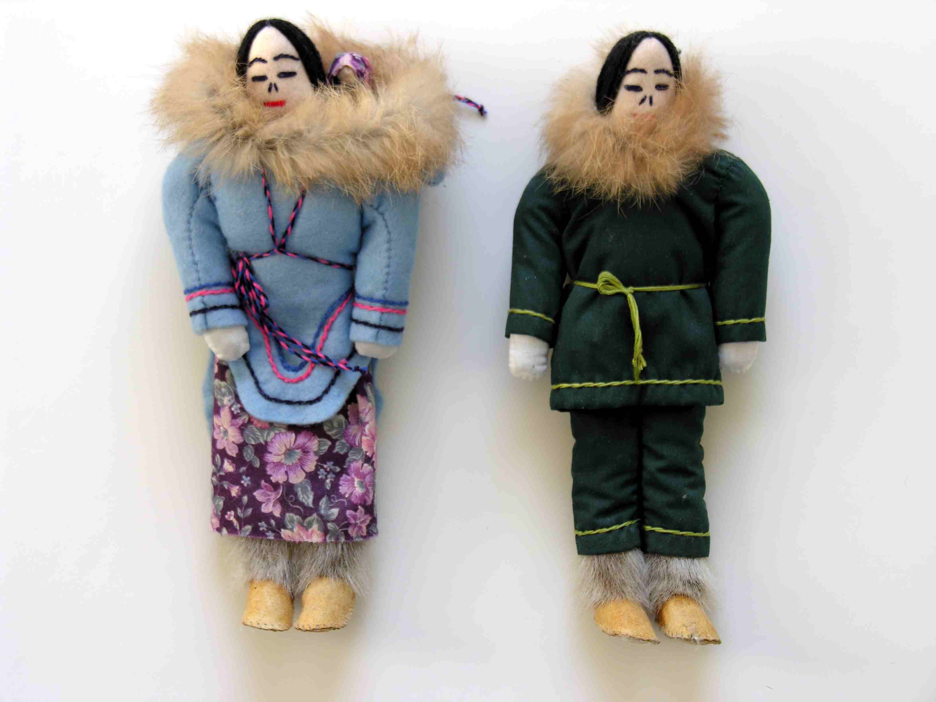 Dolls, male and female (Cape Dorset, Nunavut Territory, Canada, 1998)